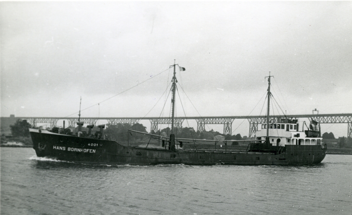 German Coaster HANS BORNHOFEN (IMO 5017436) built at Rolandwerft, Bremen, as ALITA (yard № 554, launched: 02-1943, completed: 10-1948), 1949 HANS BORNHOFEN, 1950 lengthened at Elsflether Werft, 1956 BIRGITT, 1958 ANGELN, 1964 K.RONNEFELDT, 1974 CHRONIS III, 1976 CHRISSANTHI, 19-12-1976 foundered off Euboea Island, photo by Dahl & Rohwedder, collection J. Robert Boman (1926 - 2002) owned by Sjöhistoriska museet.